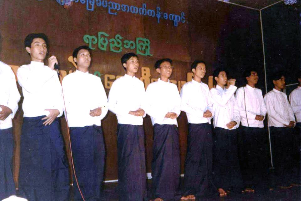 100th Year Founding Anniversary of No.9 BEHS Mawlamyine was held in 1999.